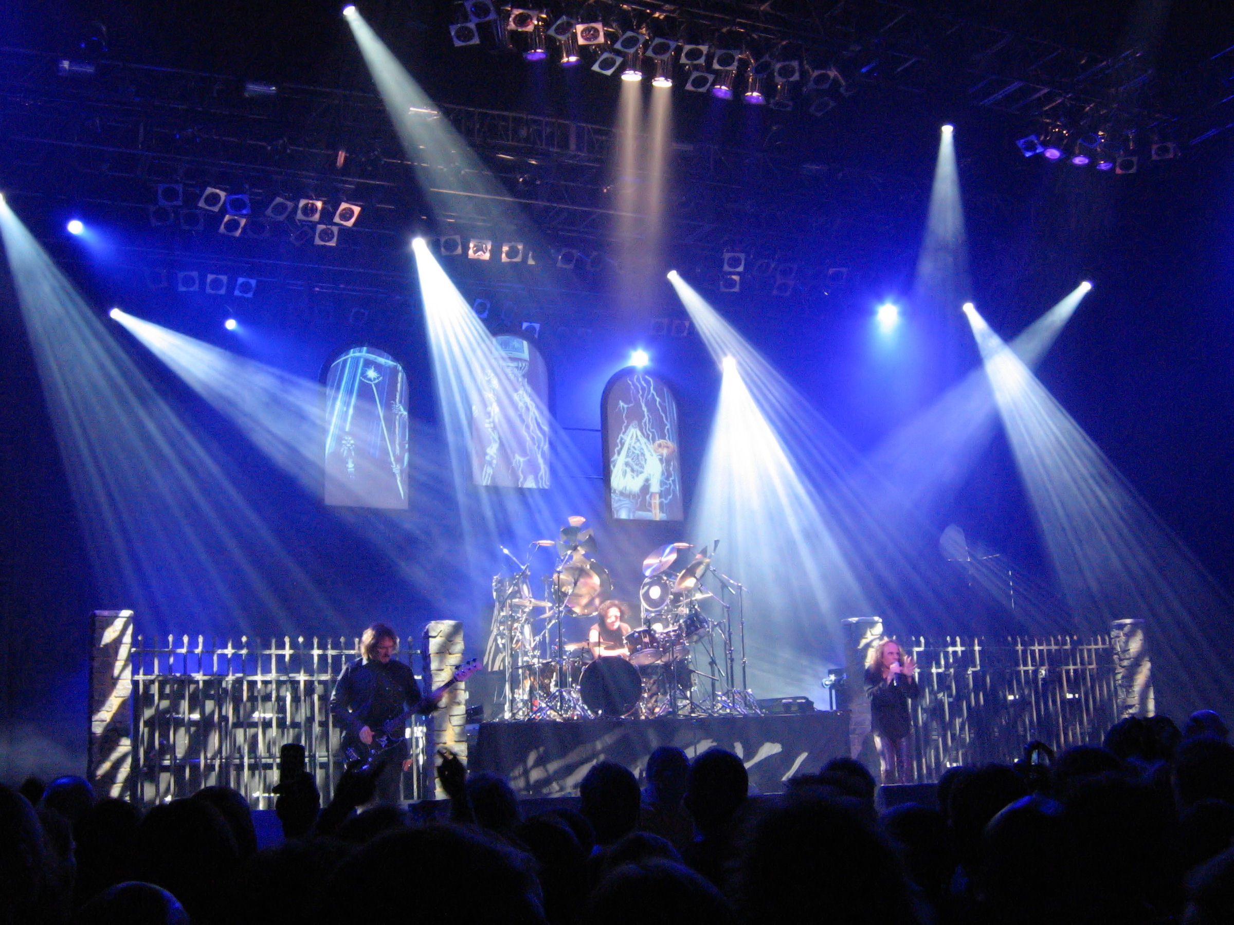 Heaven and Hell during concert in Katowice Spodek 20.06.2007